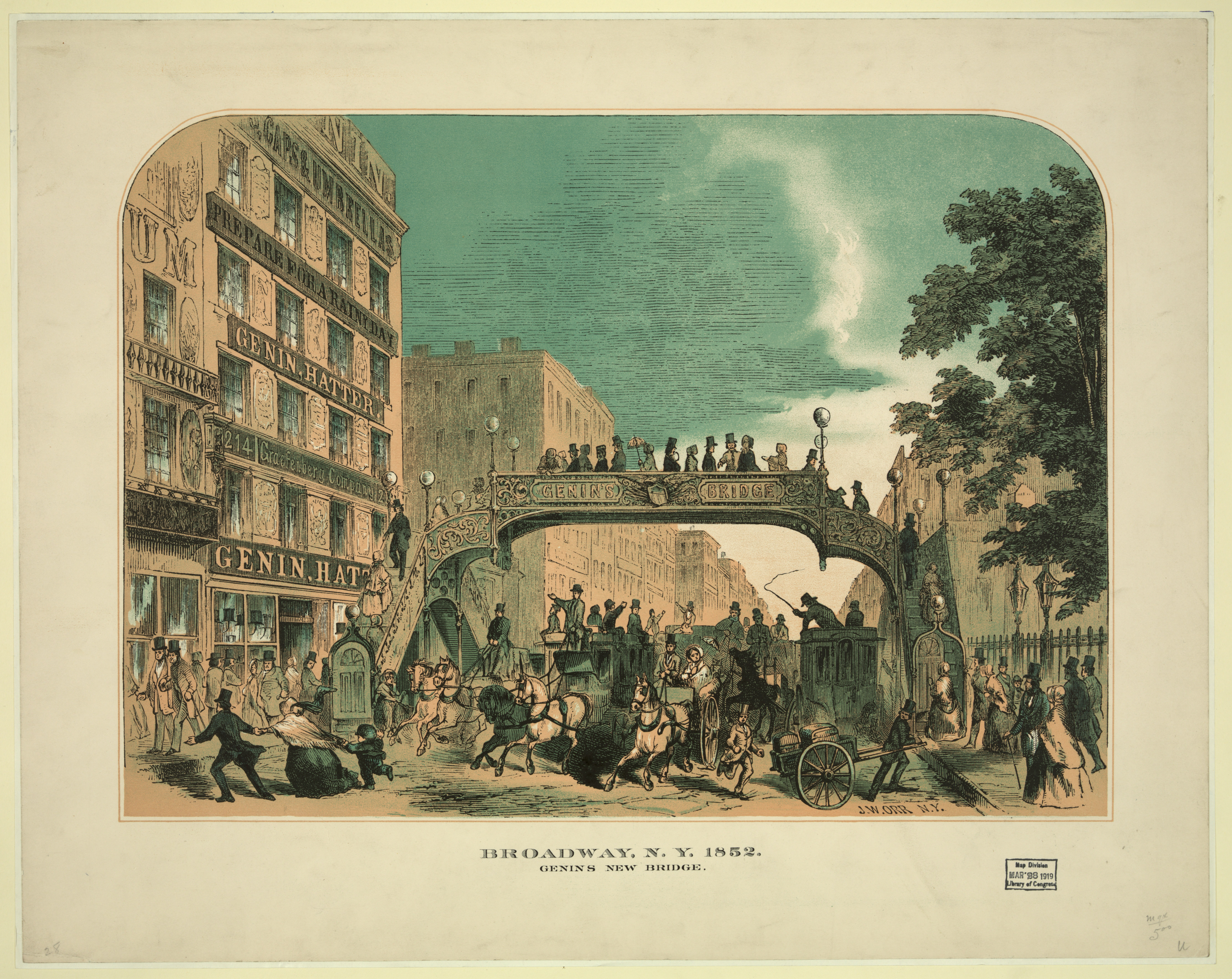 Title: Broadway, N.Y. 1852. Genins new bridge Physical description: 1 print. Notes: This record contains unverified data from PGA shelflist card.; Associated name on shelflist card: Orr, J.W.